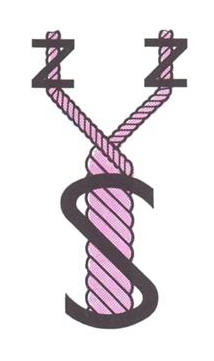 Thread made of two yarns. S and Z show the twist direction.